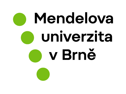 Mendel University in Brno - Logo 2019